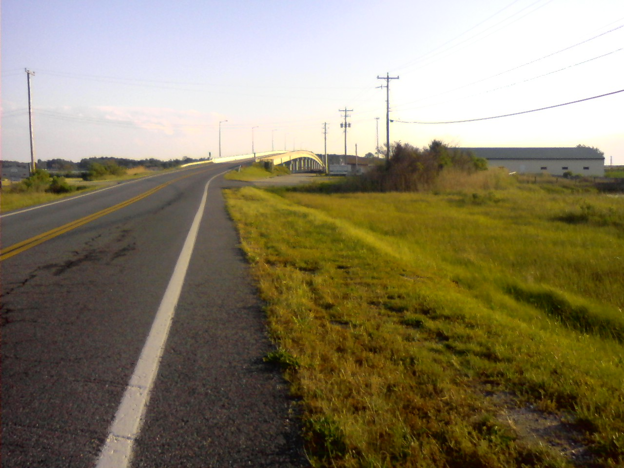 A distant view of the bridge on MD 363 over the Upper Thoroughfare.